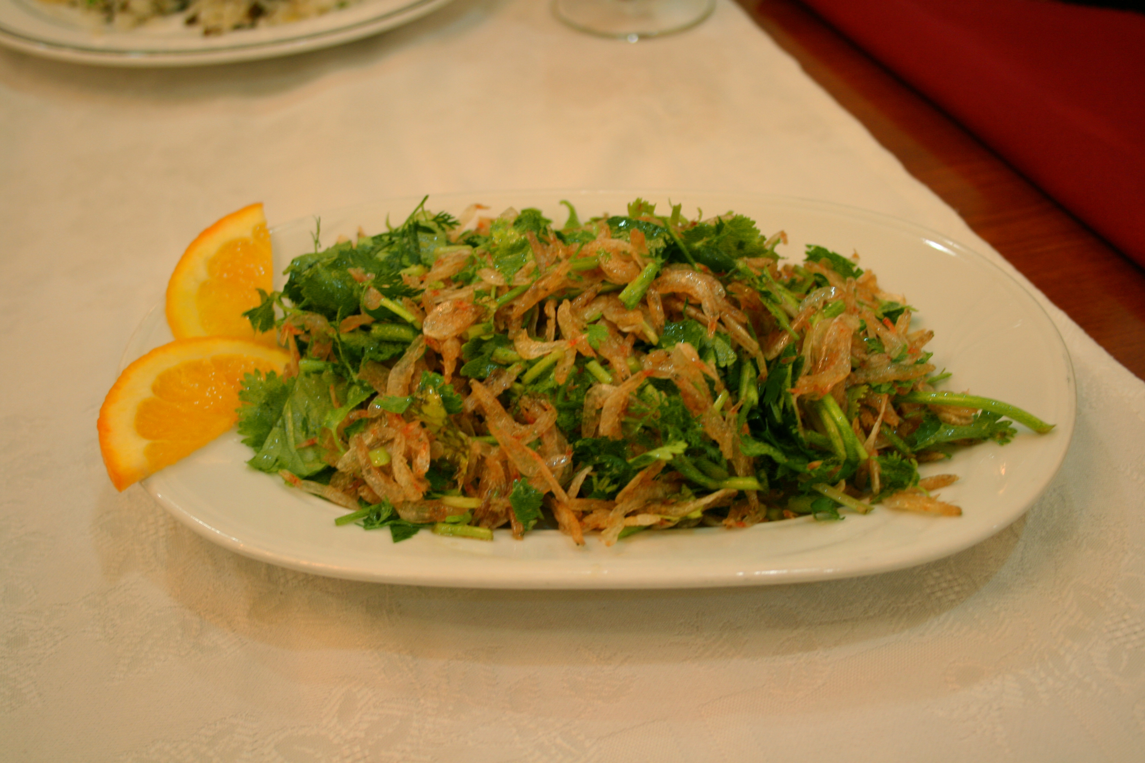 Little dry shrimp fried with coriander (蝦米)